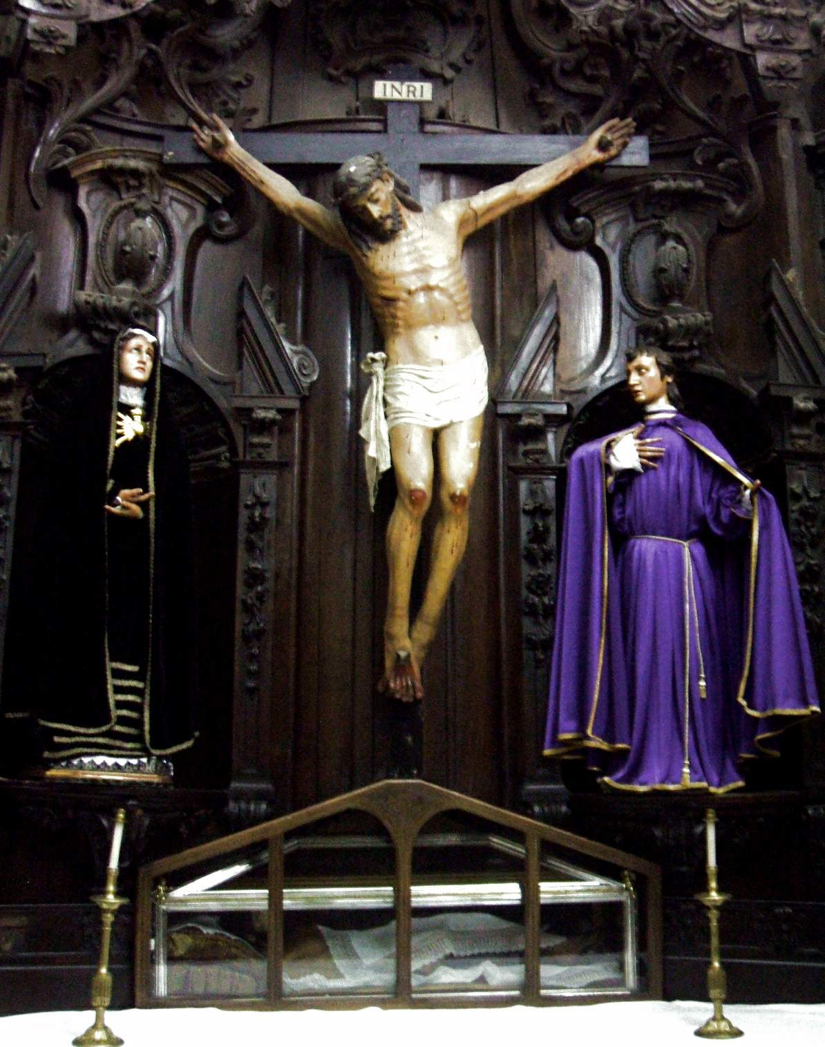 Calvario en la Capilla de la Vera Cruz de la Basílica de Santa María de la Asunción, Lequeitio (Vizcaya, Euskadi, España)